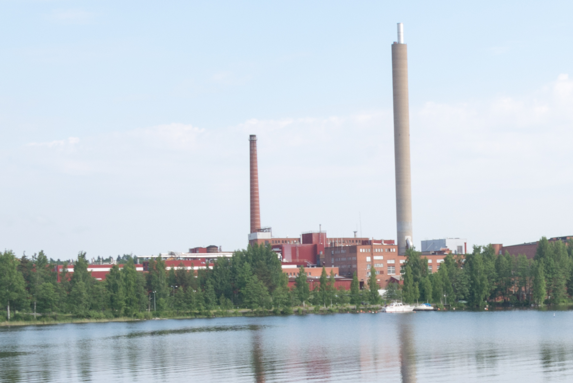 Säteri viscose fibre factory in Valkeakoski, Finland